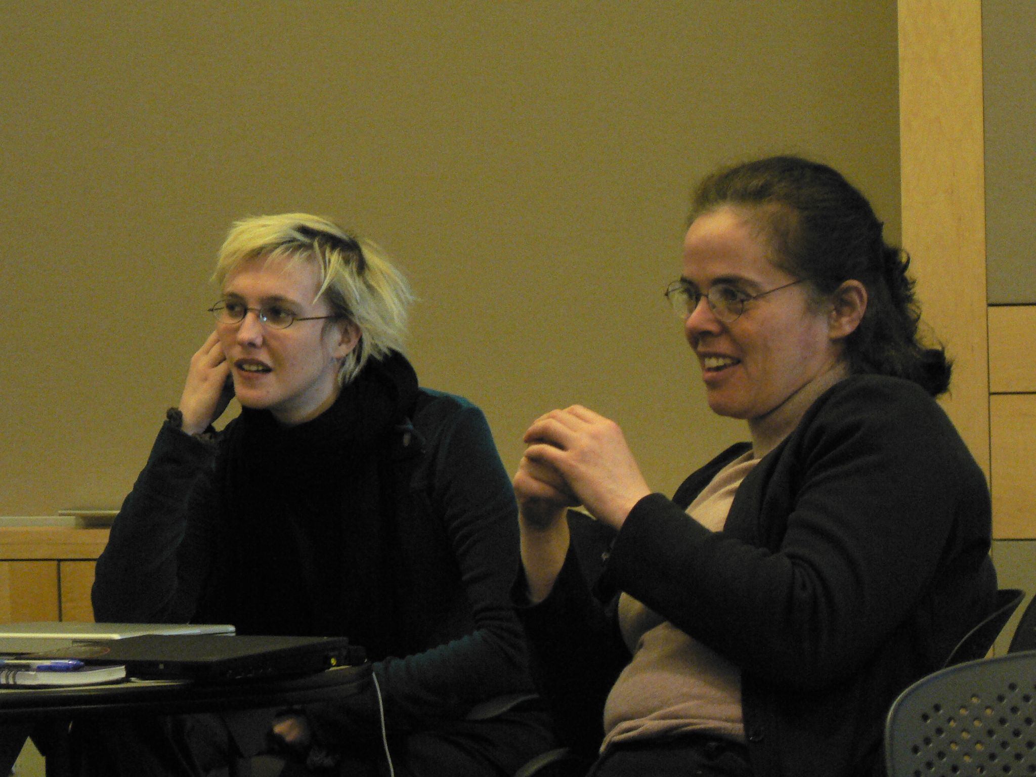 Elisabeth Bauer and Eva Tardos attending the Cornell/Microsoft Research International Symposium on Self-Organizing Online Communities